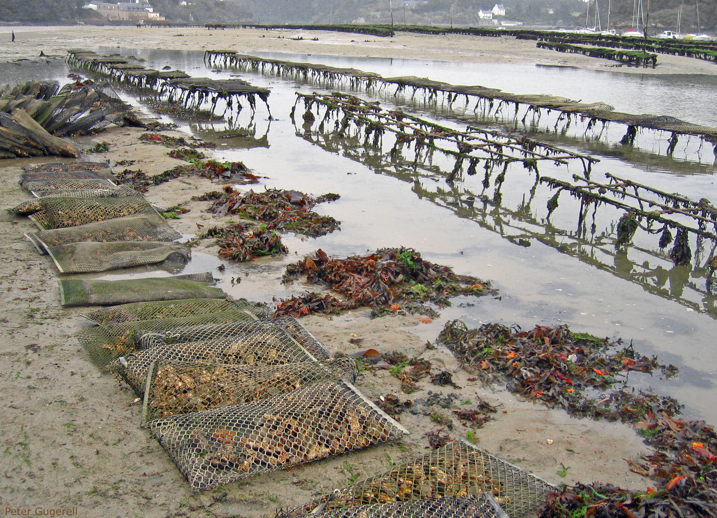 Oyster cultivation at Belon, Brittany, France